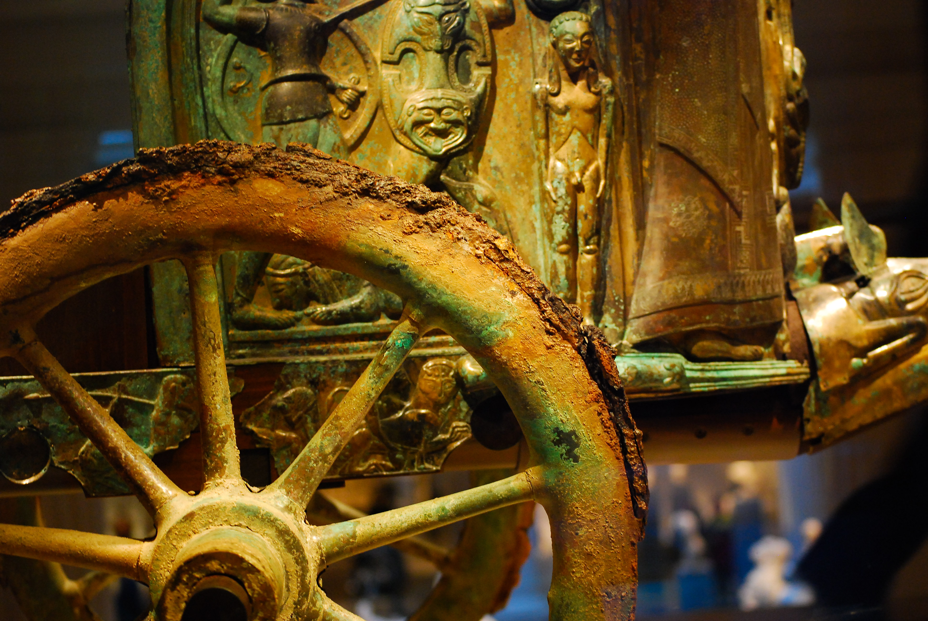 The Monteleone Chariot is an Etruscan chariot dated to ca. 530 BC. It was originally uncovered at Monteleone di Spoleto and is currently part of the collection of the Metropolitan Museum of Art in New York City. Though about 300 ancient chariots are known to still exist, only six are reasonably complete, and the Monteleone chariot is the best-preserved. (This summary was created using Commons SumItUp). Etruscan chariot wheel